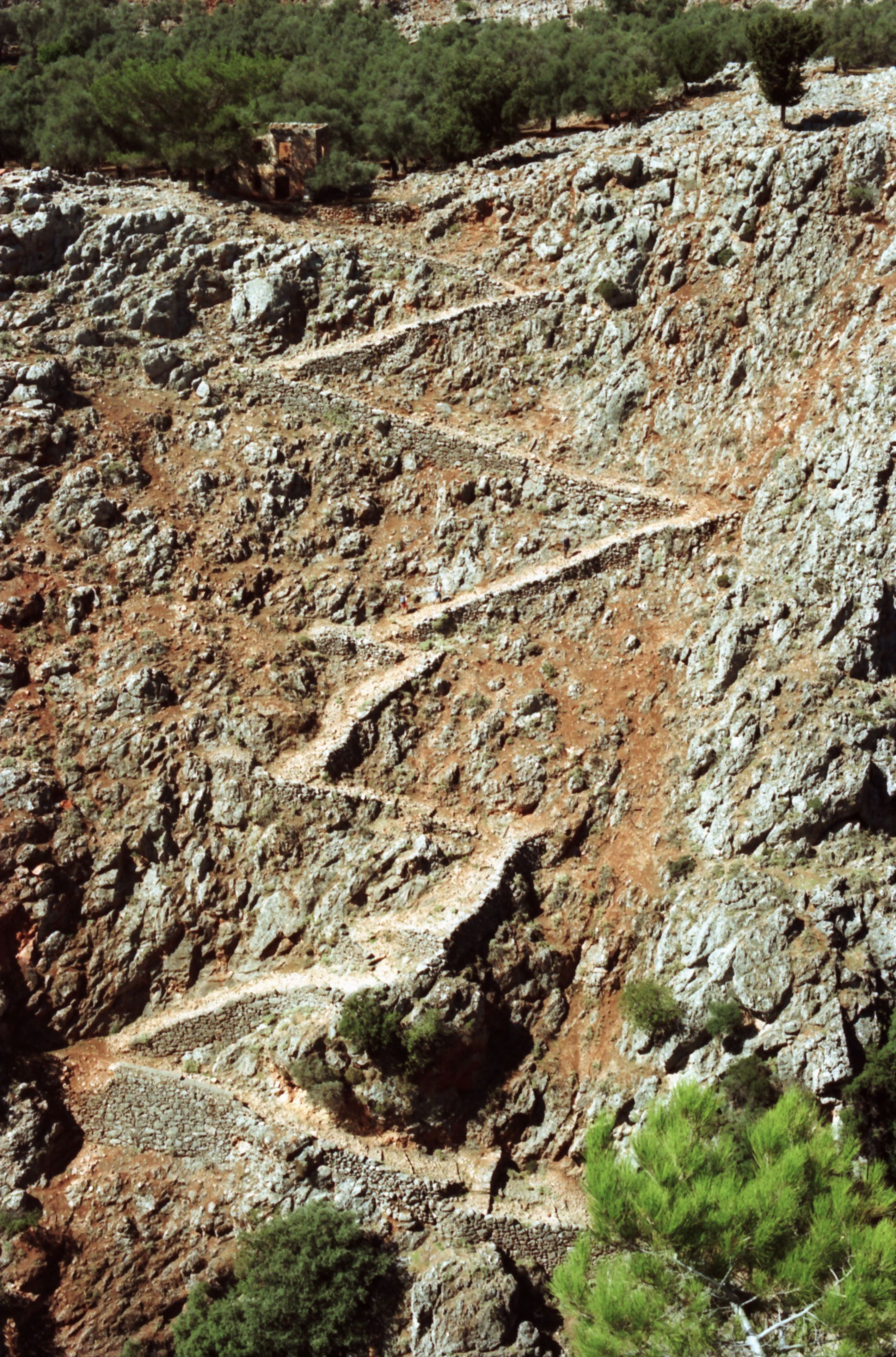 Kalderimi (cobbled mule-track) is crossing the Aradena gorge (looking N).